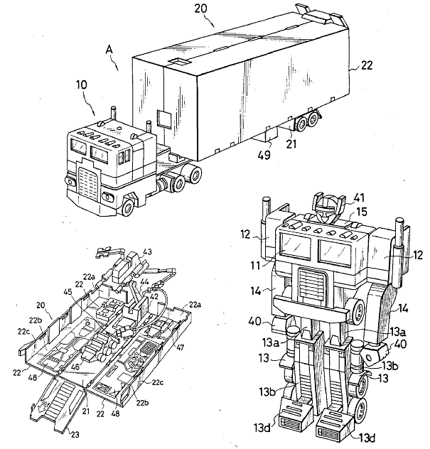 Optimus Prime toy design